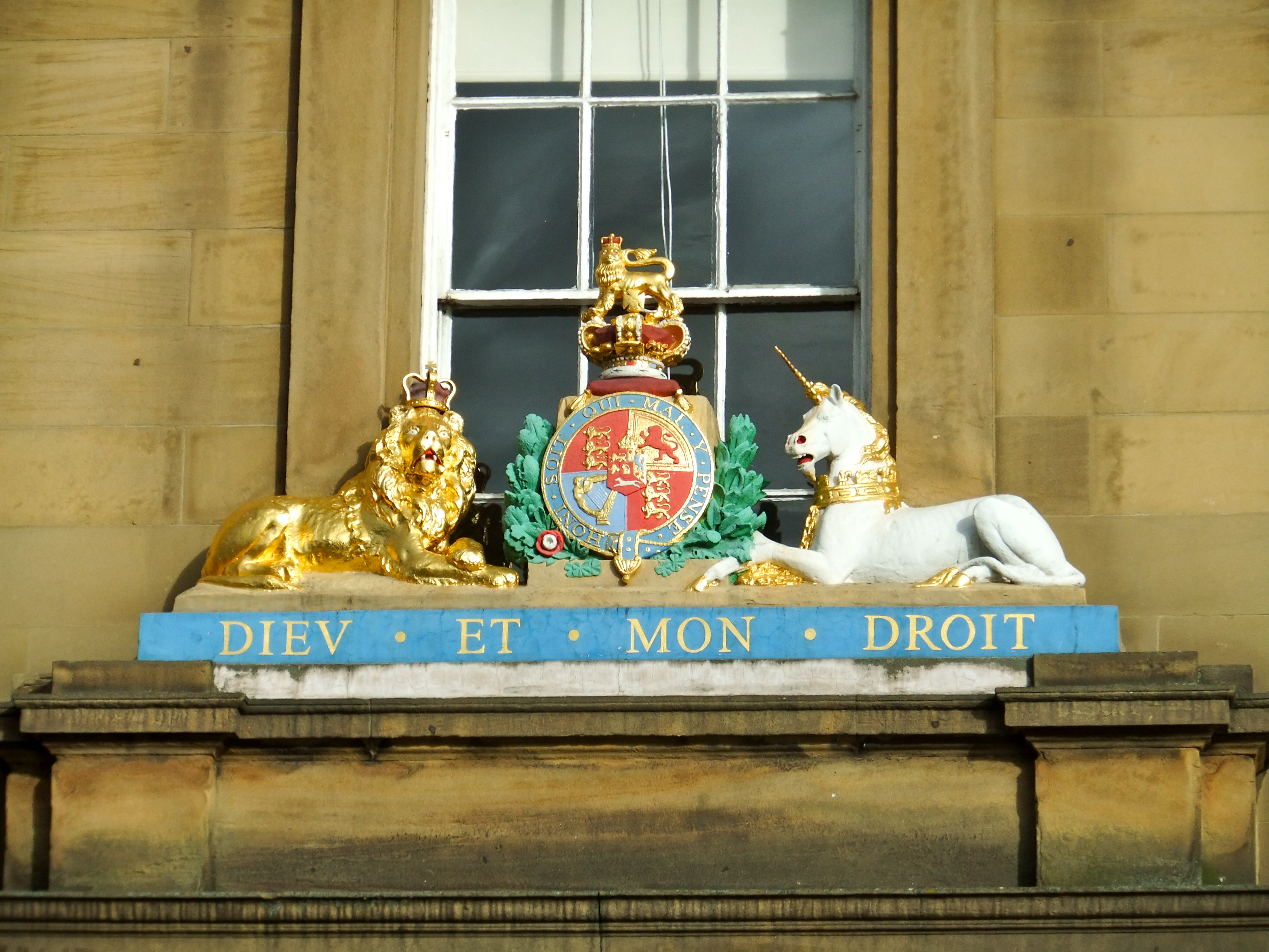 On the side of the old customs house